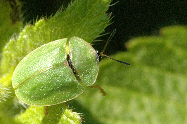 Cassida viridis from Commanster, Belgian High Ardennes .